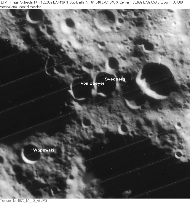 Craters Svedberg, von Baeyer and Wapowski. Detail from Lunar Orbiter IV-070H. High resolution scans from the USGS Lunar Orbiter Digitization Project remapped to a north-up aerial view by LTVT.